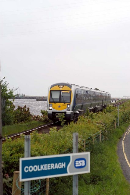 Culmore/Coolkeeragh Co. Londonderry The sign says Coolkeeragh, but the information from the various books I have read, states that this is infact the site or near to the site of Culmore Station.